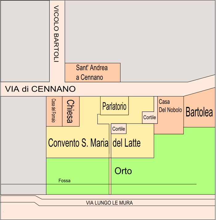 Cennano Street in Montevarchi at the end of XVII century. Copy from the original in Archivio di Stato di Firenze